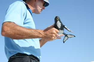 Whale watching operator giving a talk about whales and their conservation